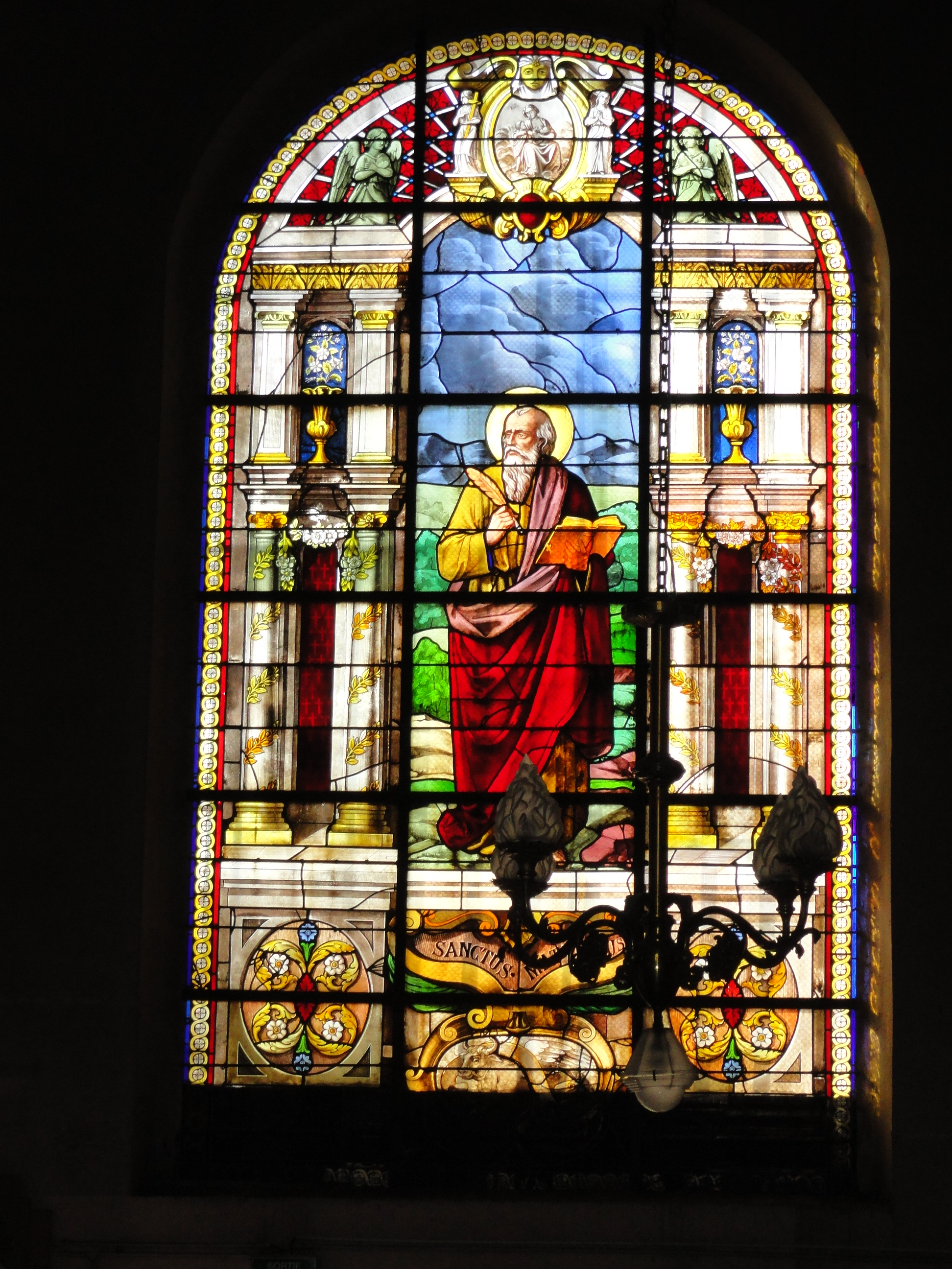 Church Saint-Germain l'Auxerrois of Pantin- Historic monument - One of the stained glass windows: saint Matthew.